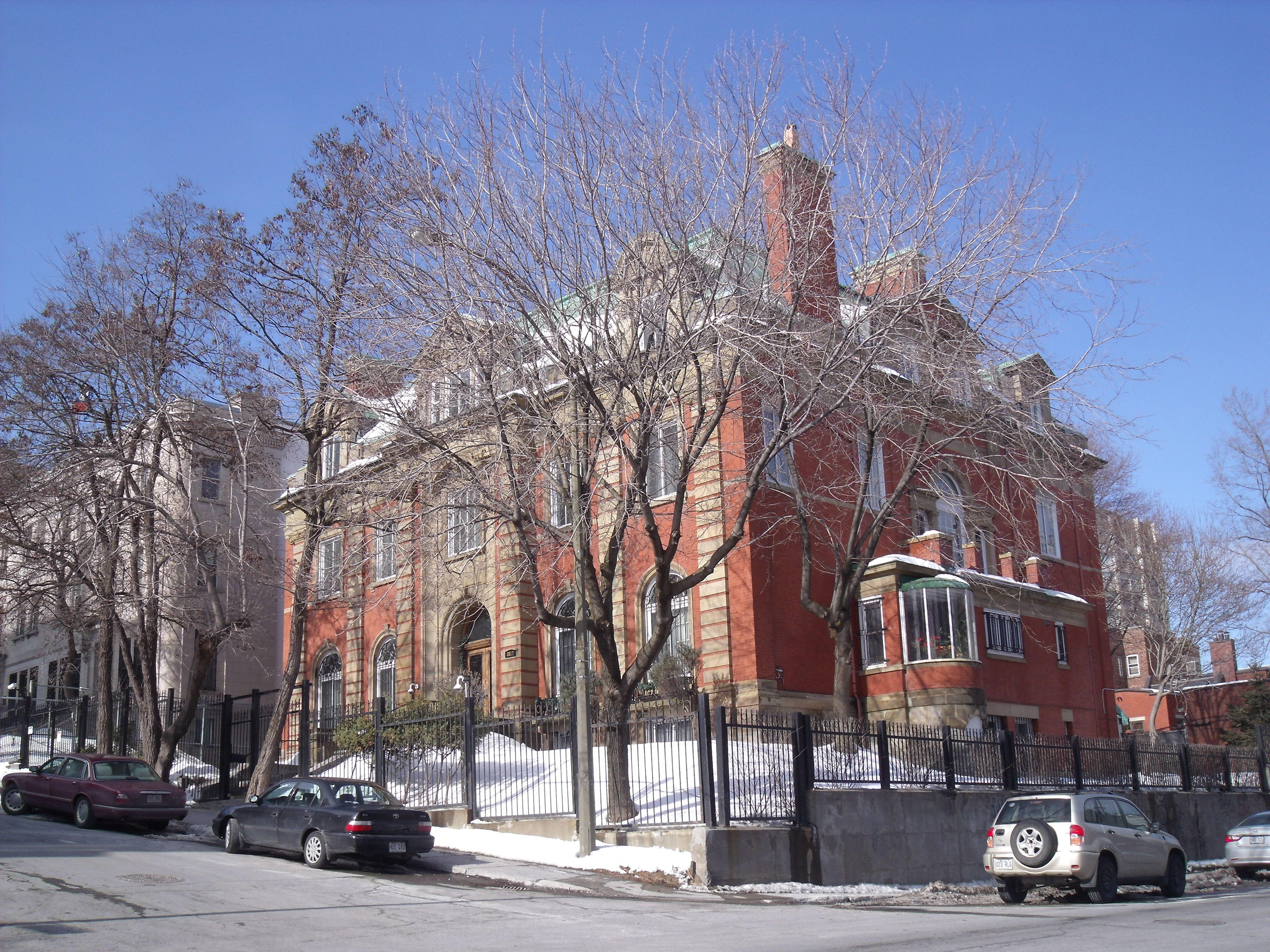 Herbert Molson Mansion.